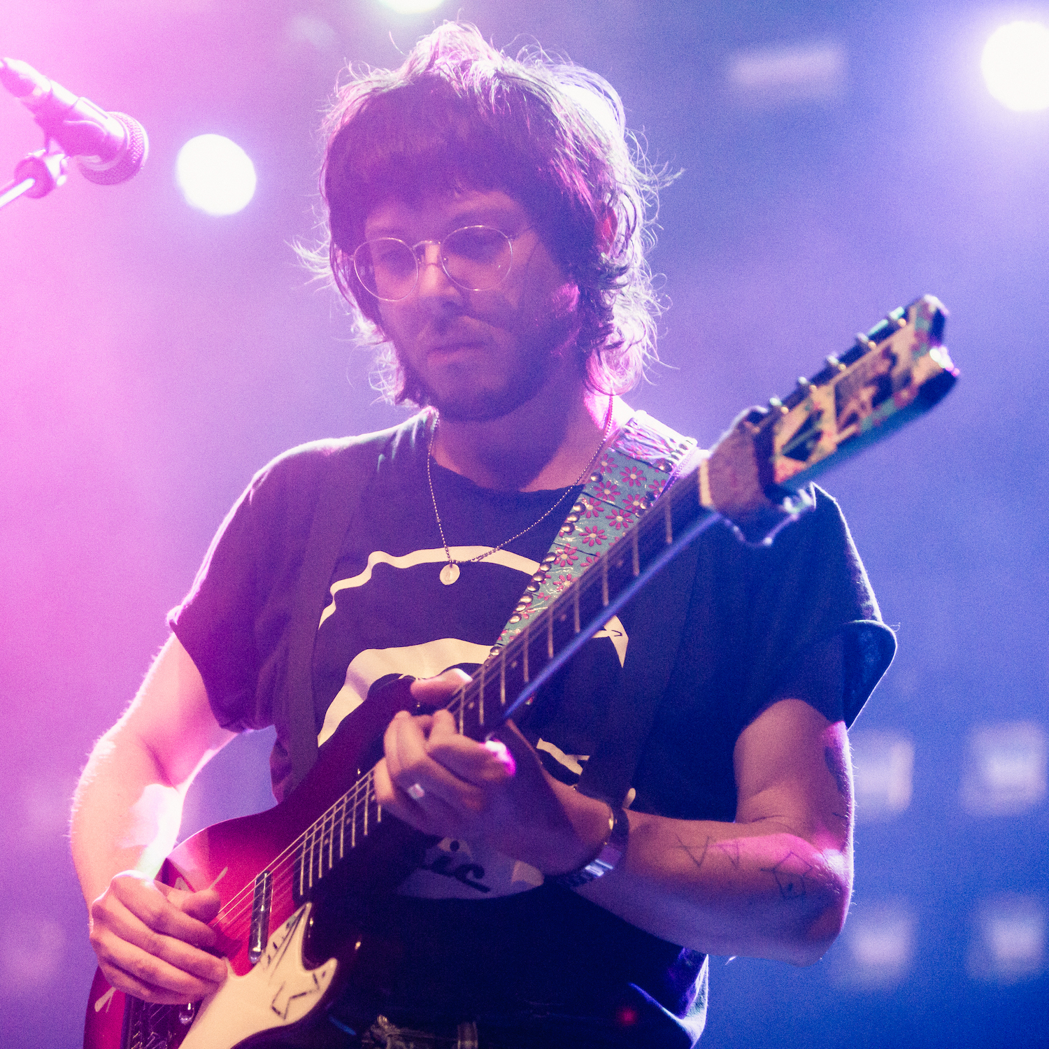 Taylor Hollingworth playing with Conor Oberst and the Mystic Valley Band at the Observatory Theater, San Diego, CA (June 14, 2017).